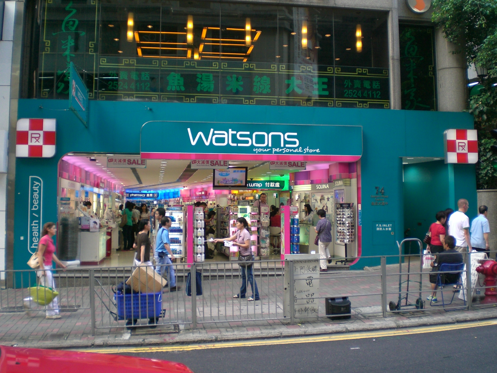 屈臣氏藥房, 藥房 Author= Saiyans16